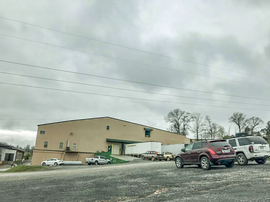 The Southeastern Provisions slaughterhouse in Bean Station, Tennessee that was raided by U.S. Immigration and Customs Enforcement (ICE) in April of 2018.